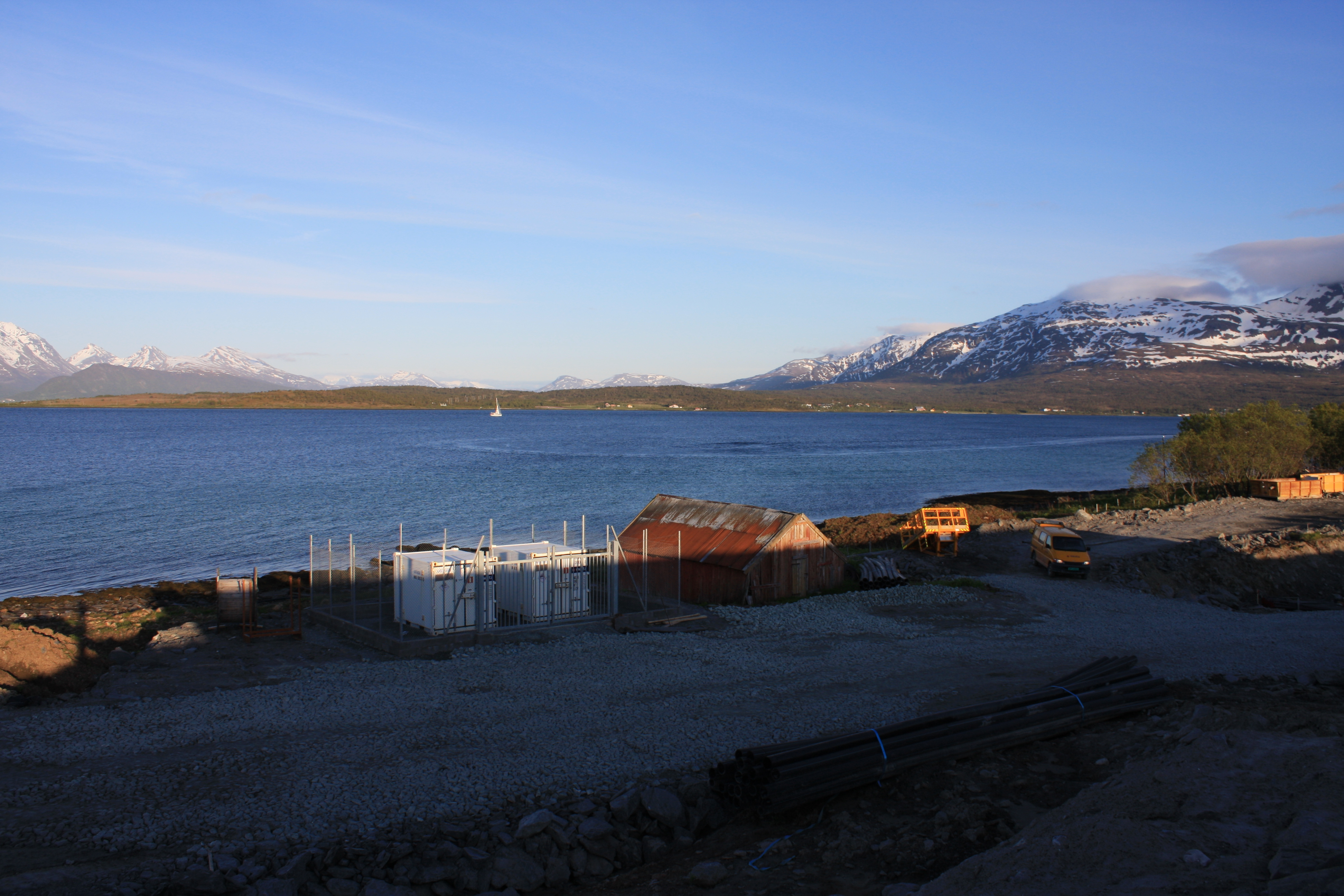 The construction site of the undersea tunnel (Ryaforbindelsen) with the peninsula Malangshalvøya in the background.